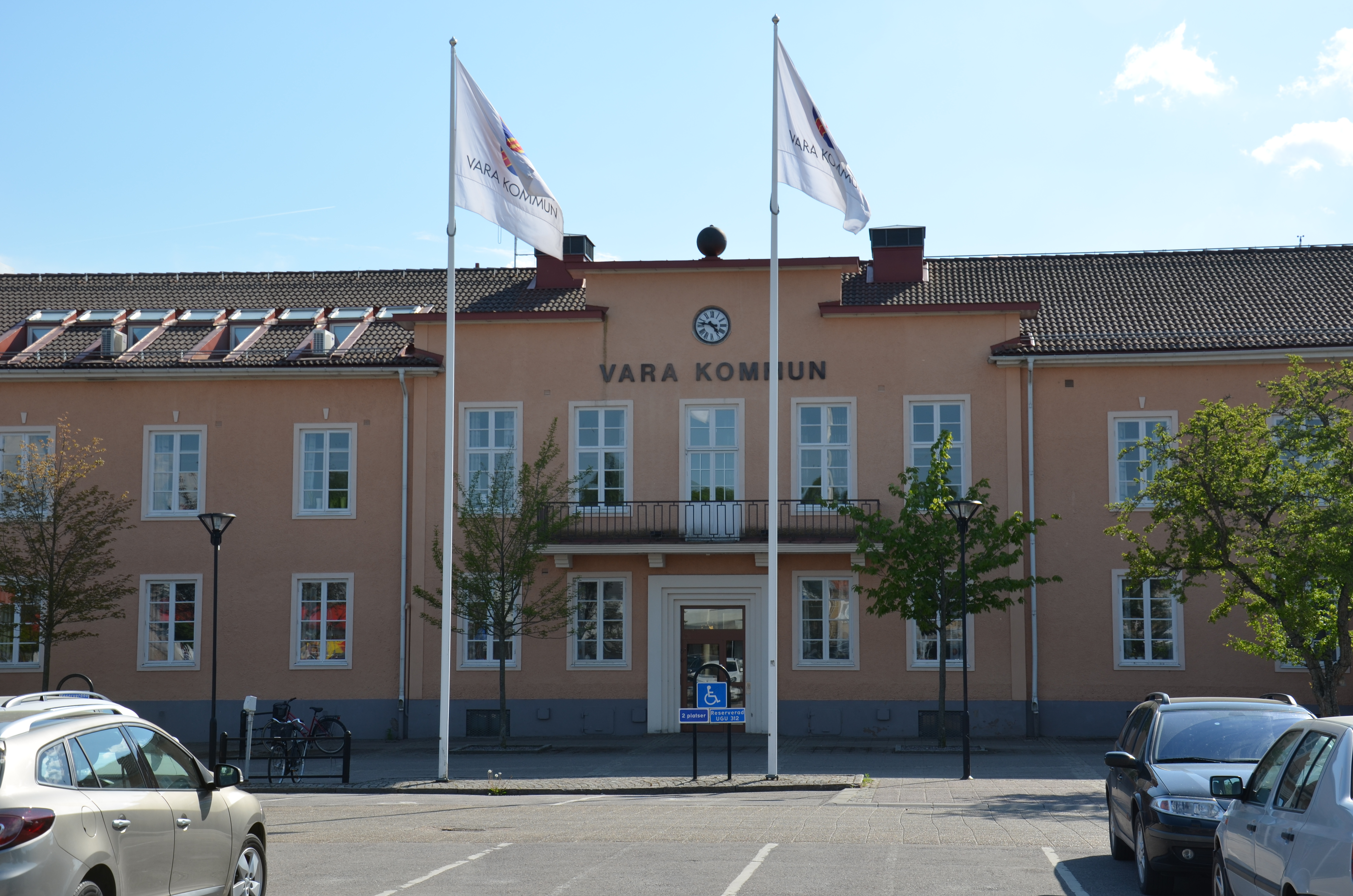 Vara Municipality Building